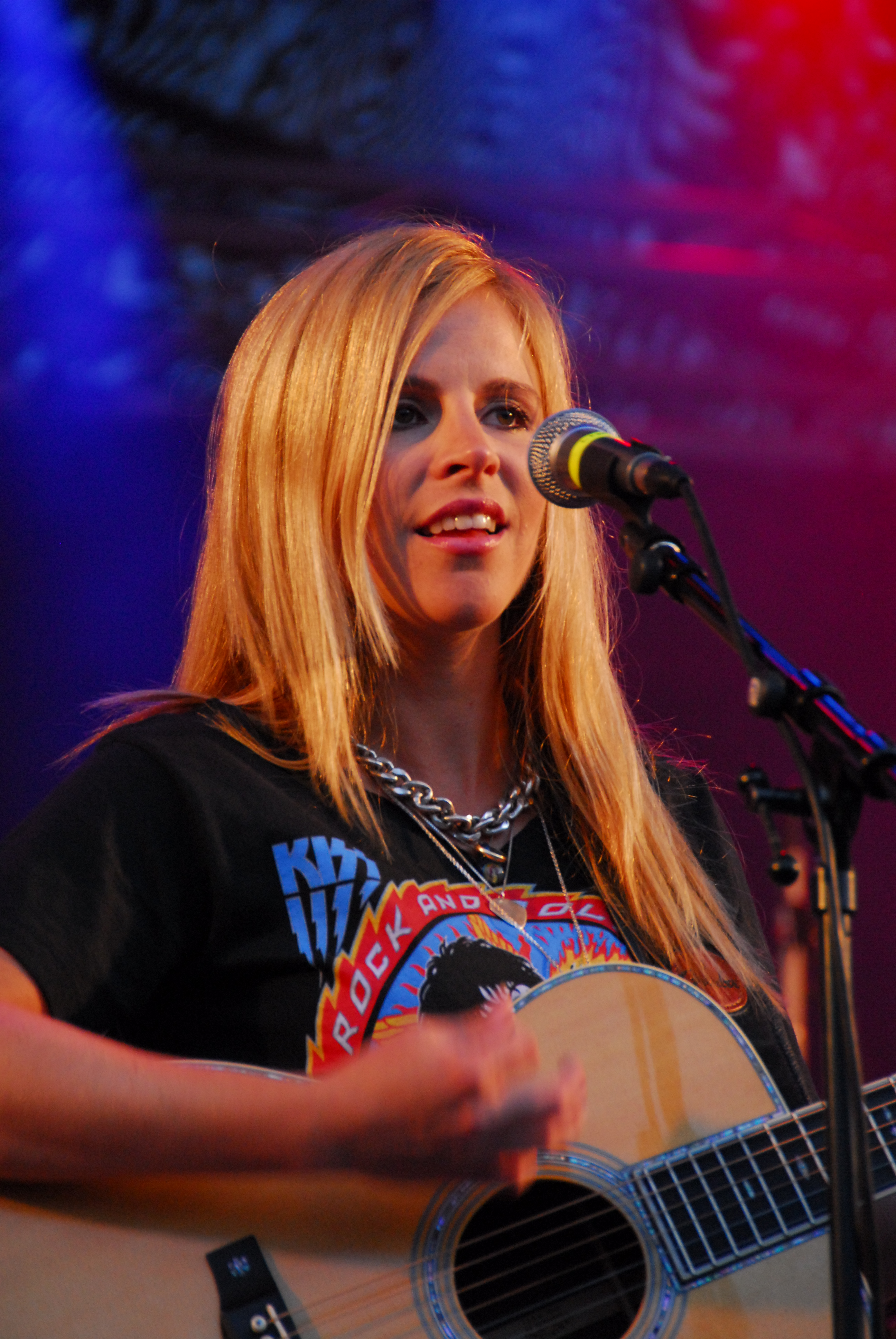 Lisa Miskovsky playing at Stadsfesten Skellefteå 2007